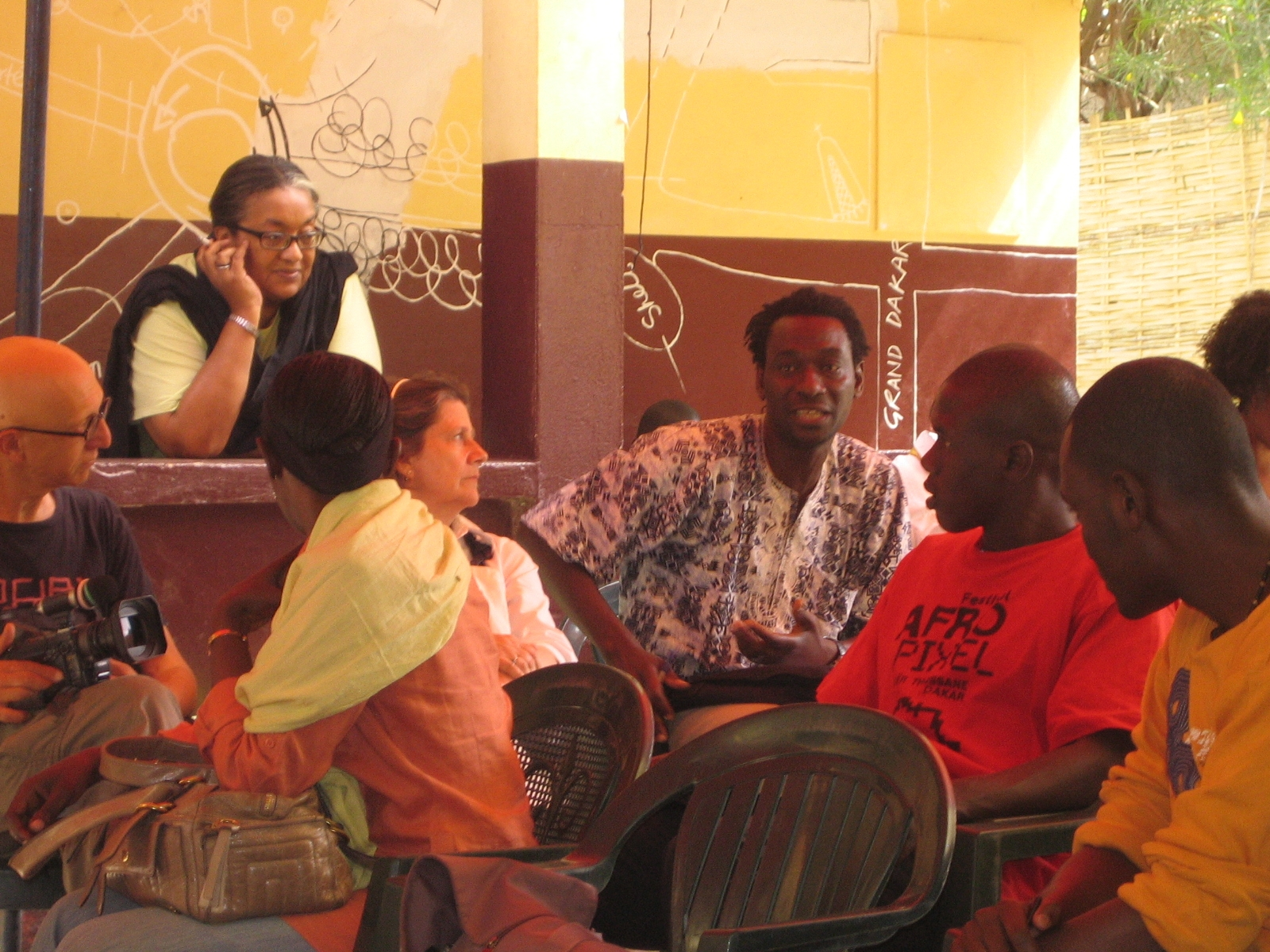 Armin Kane at the WikiAfrica Art Conference in Dakar by the Ker Thiossane association.